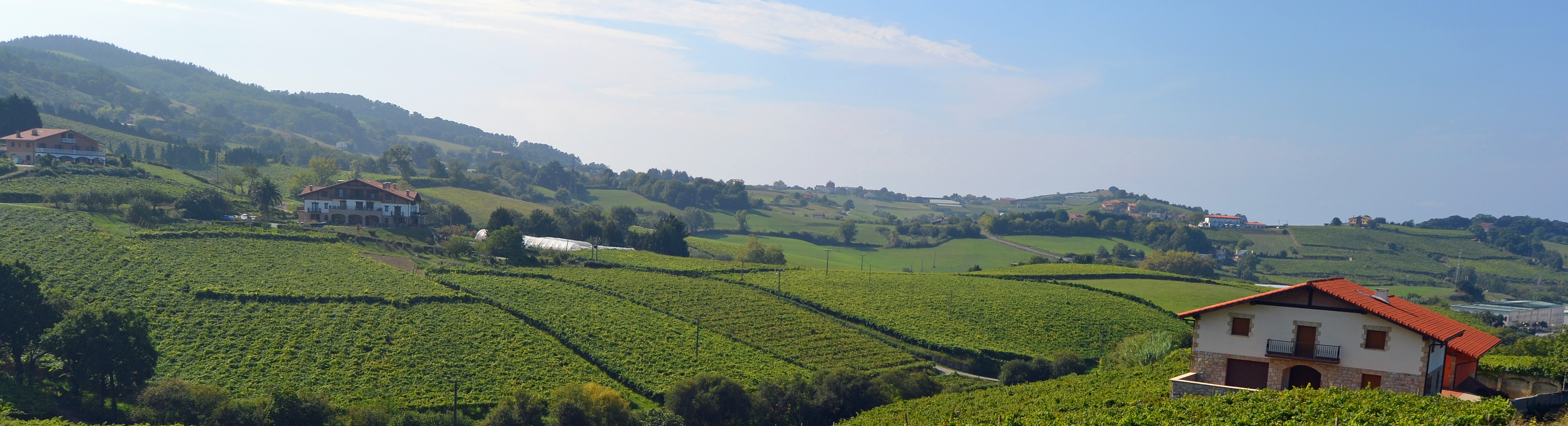 Vineyards of Getaria. Gipuzkoa, Basque Country